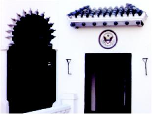 American Legation, now the Tangier American Legation Museum, in the old medina of Tangier, Morocco. Exterior view of entrance.